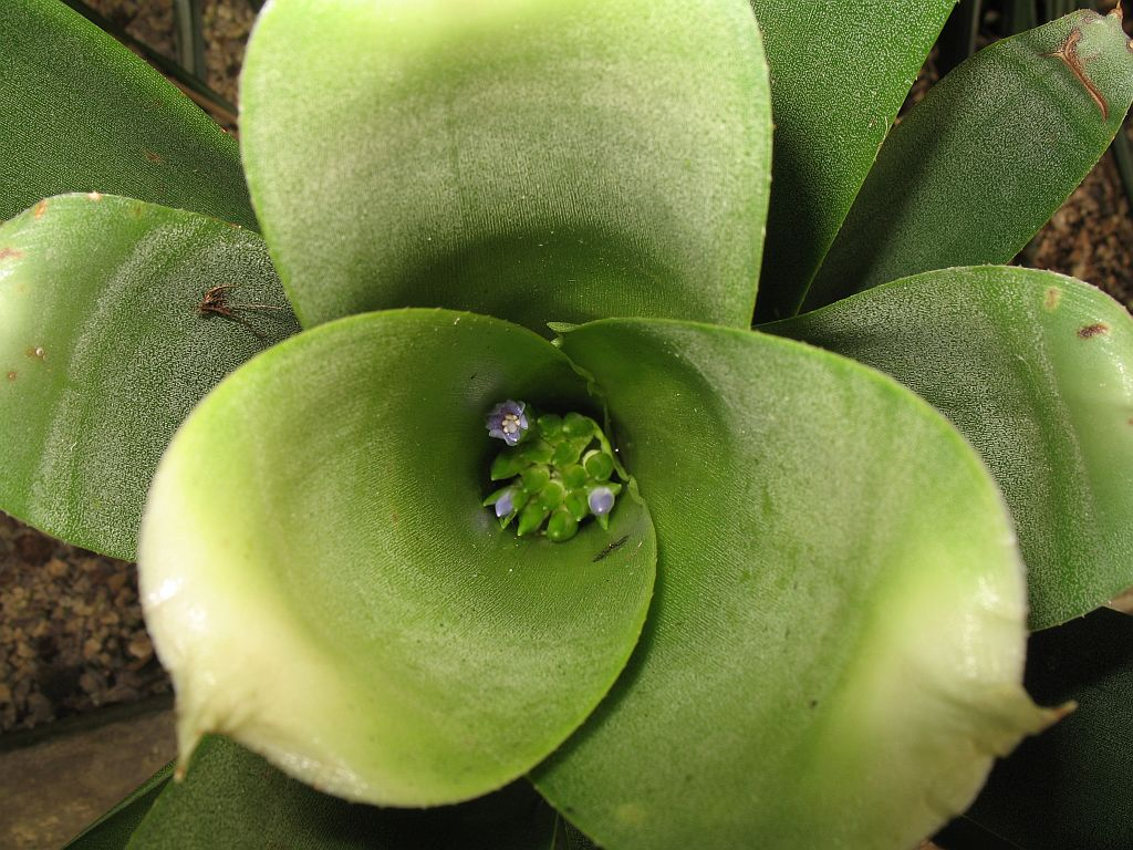 Neoregelia bahiana in cultivation at the Botanical Garden of Heidelberg, Germany.